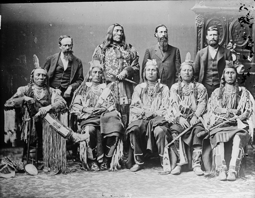 Photograph of a delegation of important Crow Nation Indian chiefs, 1880.